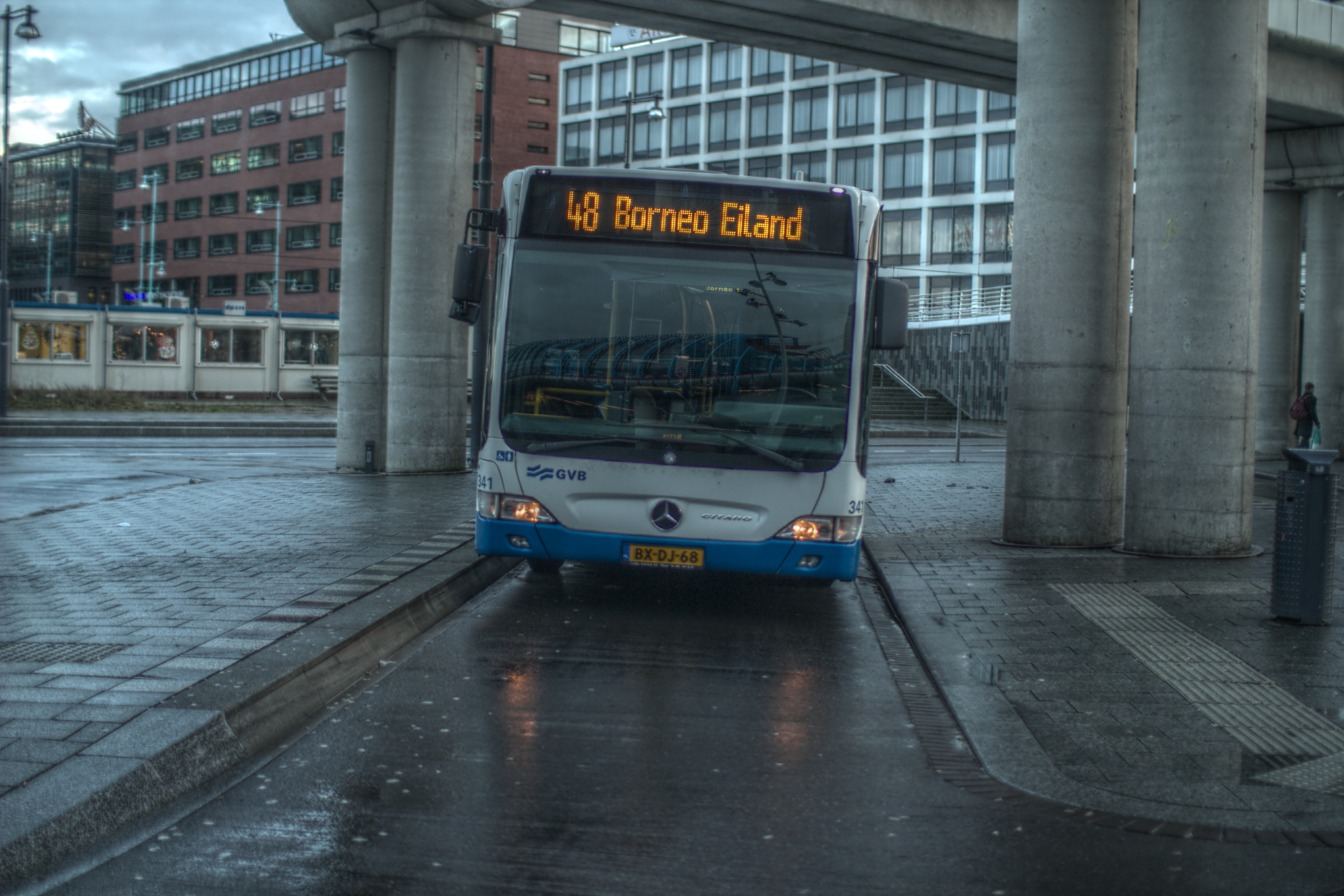 Bus 48 at its Sloterdijk terminus. December 2012